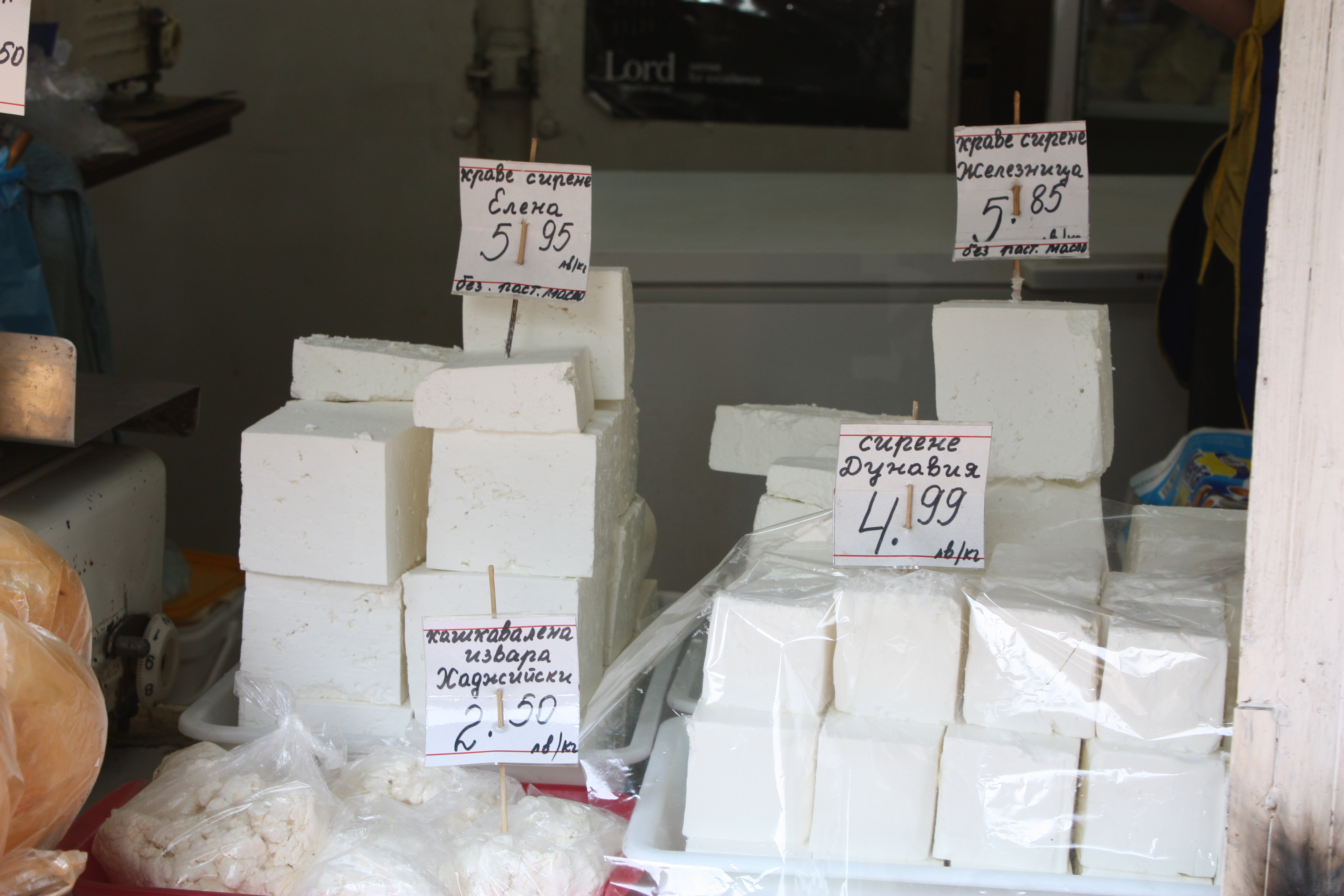 Traditional Bulgarian white brine cheese in Sofia,Bulgaria